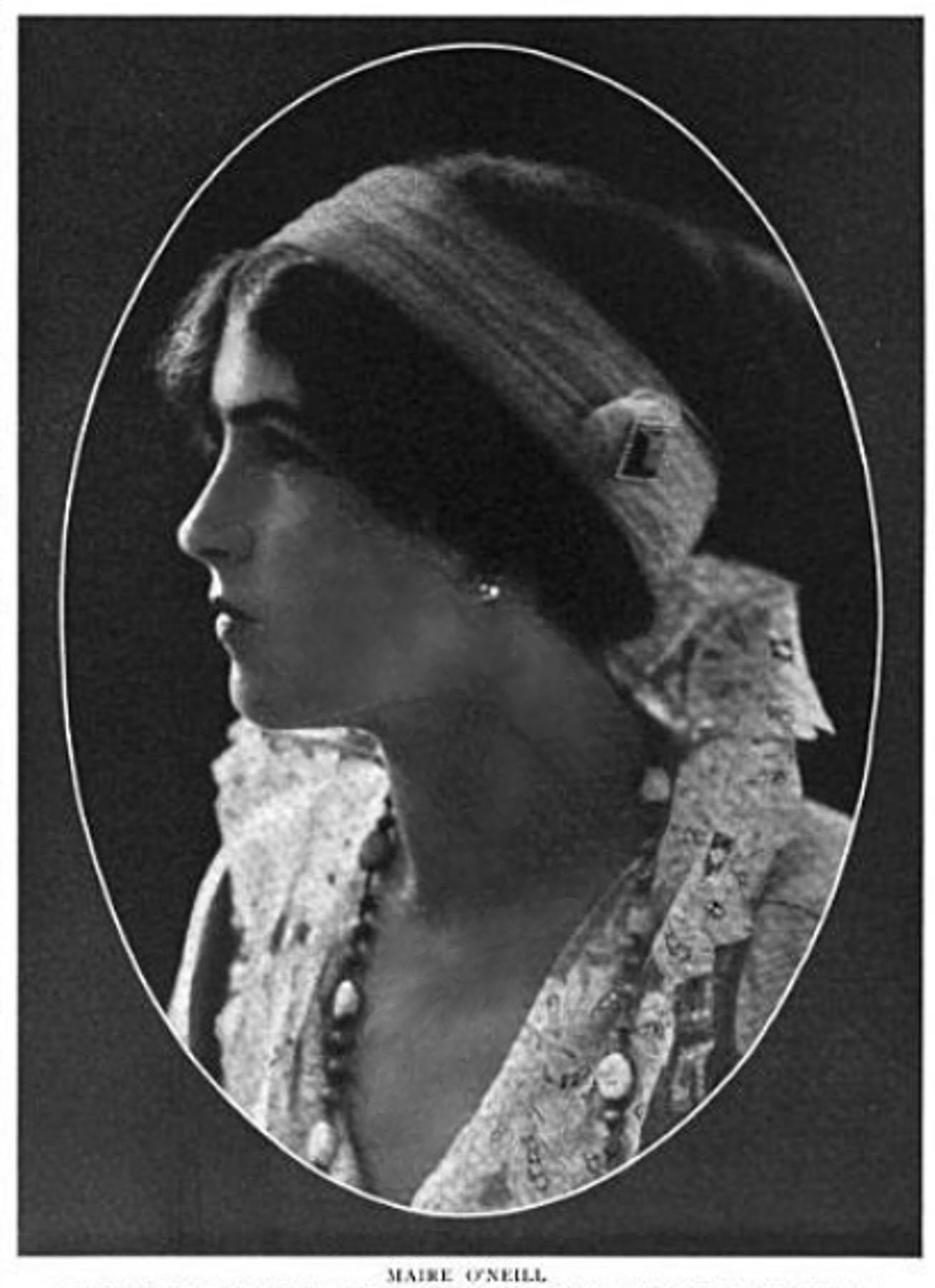 Photograph of actress Maire O'Neill (12 January 1885 – 2 November 1952)